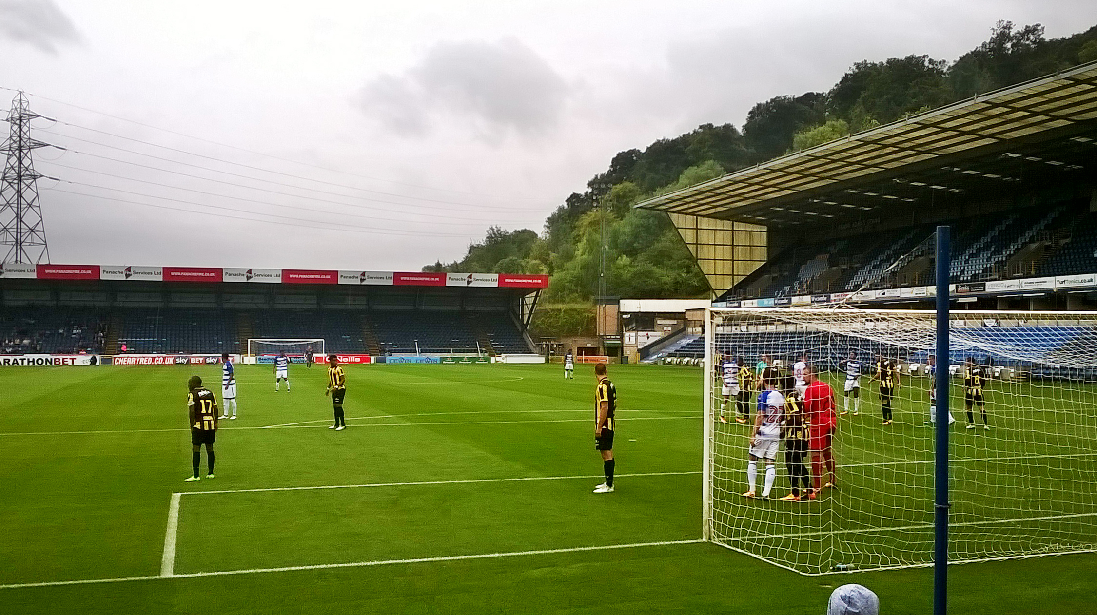 Reading vs SBV Vitesse on 29 July 2017 at Adams Park, High Wycombe